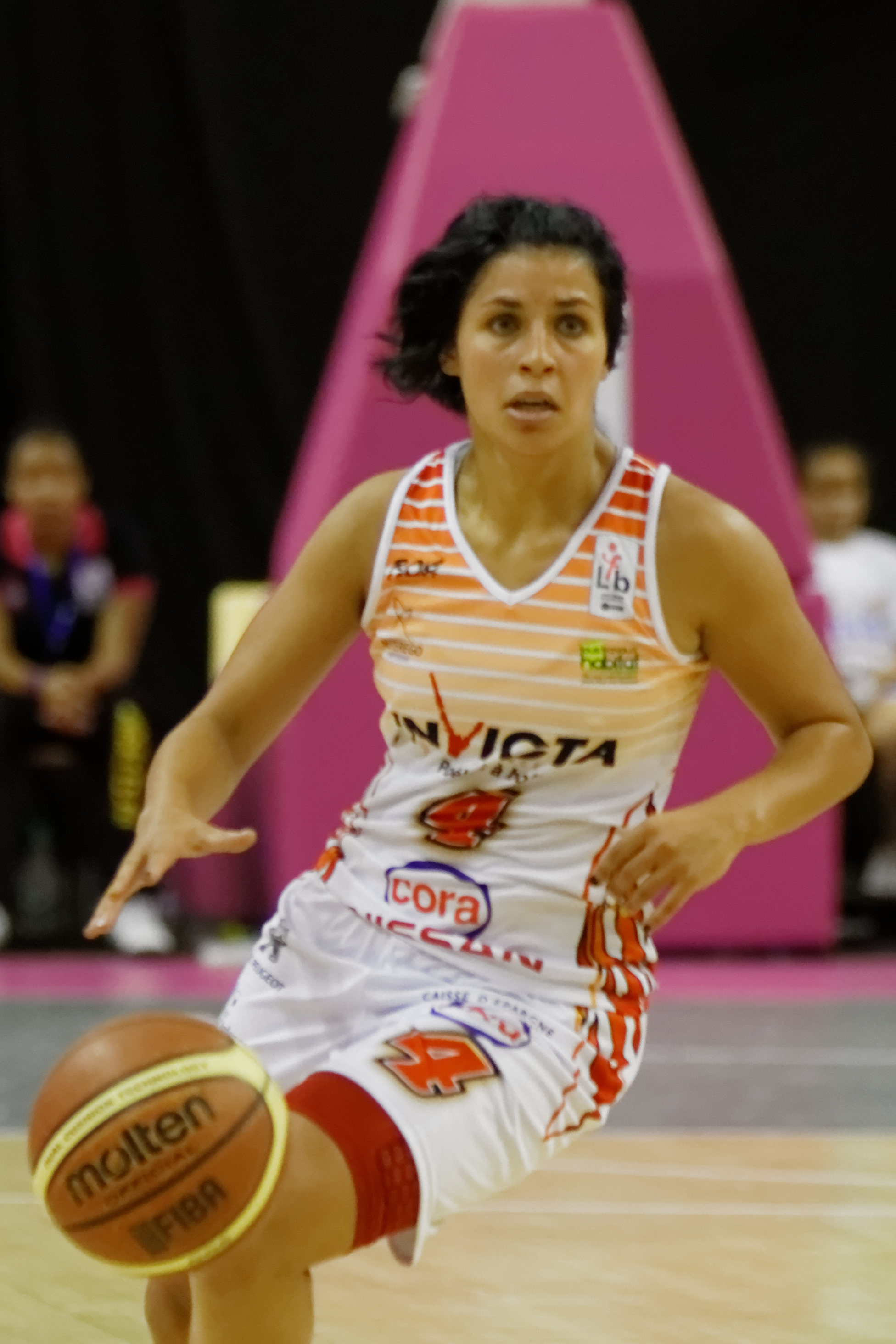 Open LFB, Charleville-Mézières - Tarbes, October 5th, 2013.